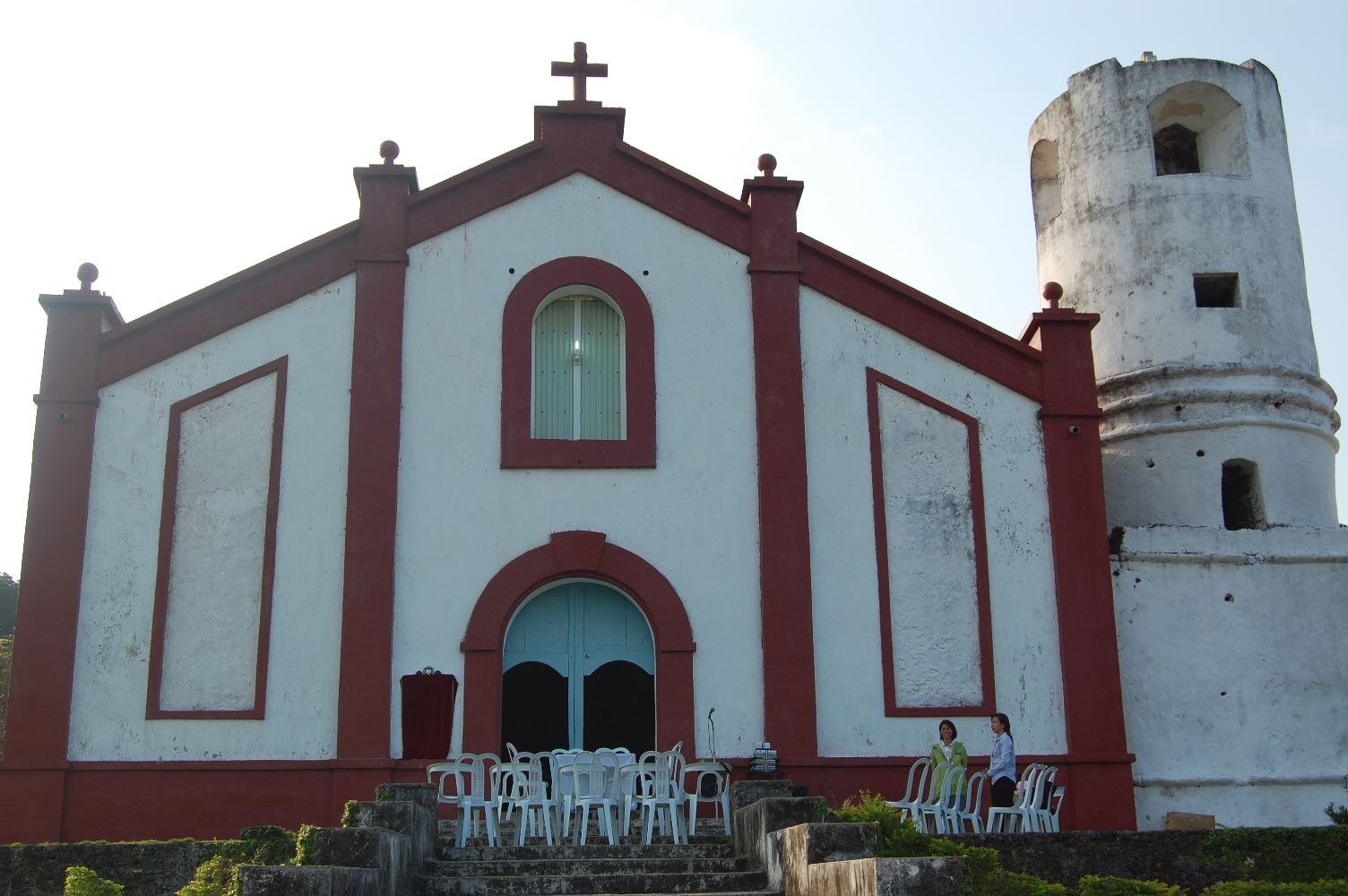 Facade of Itbayat Church